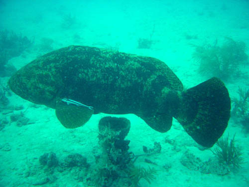 Goliath grouper, Epinephelus itajara, about 2m long.